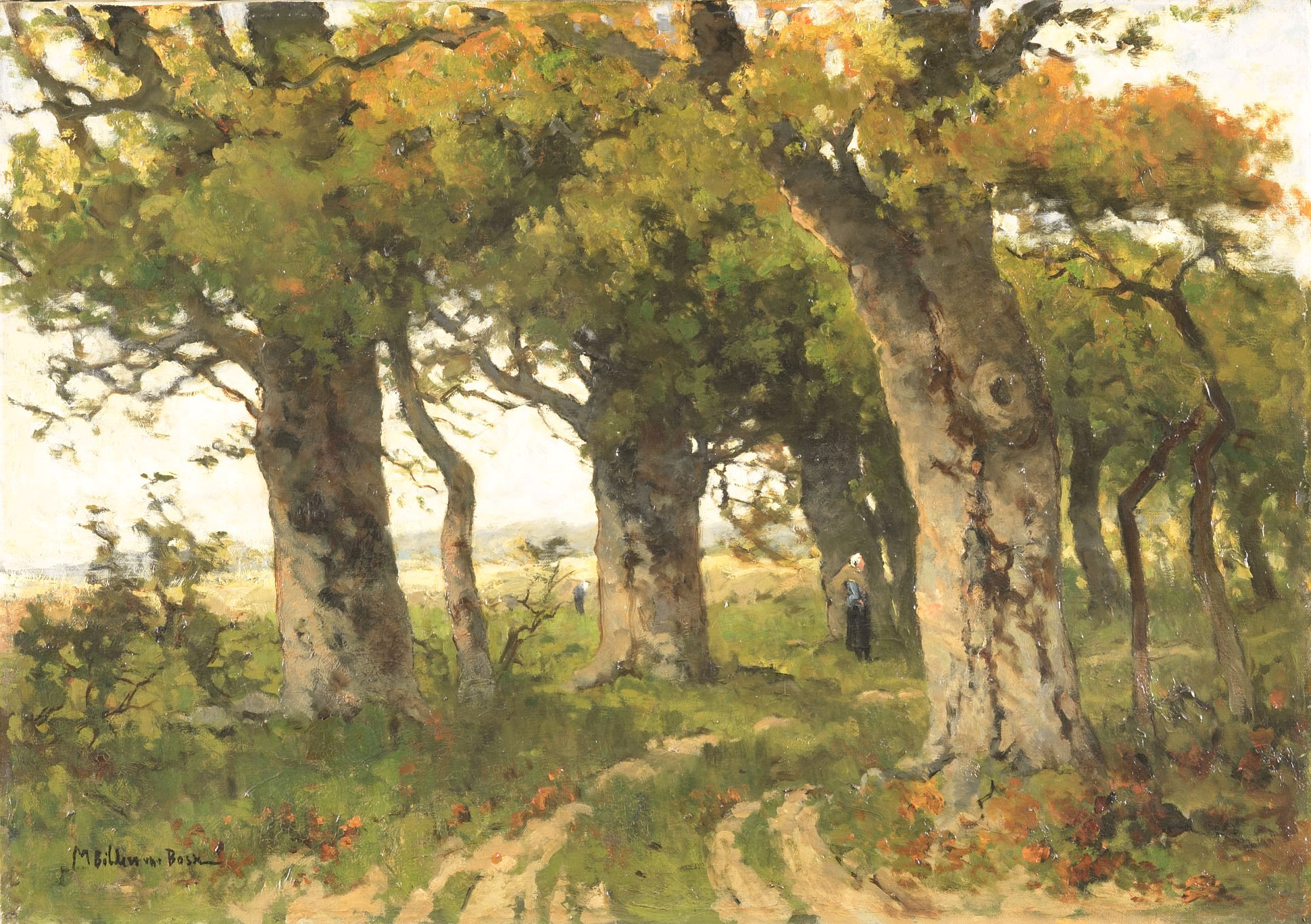 Landscape with a dirt road in between two rows of oak trees.